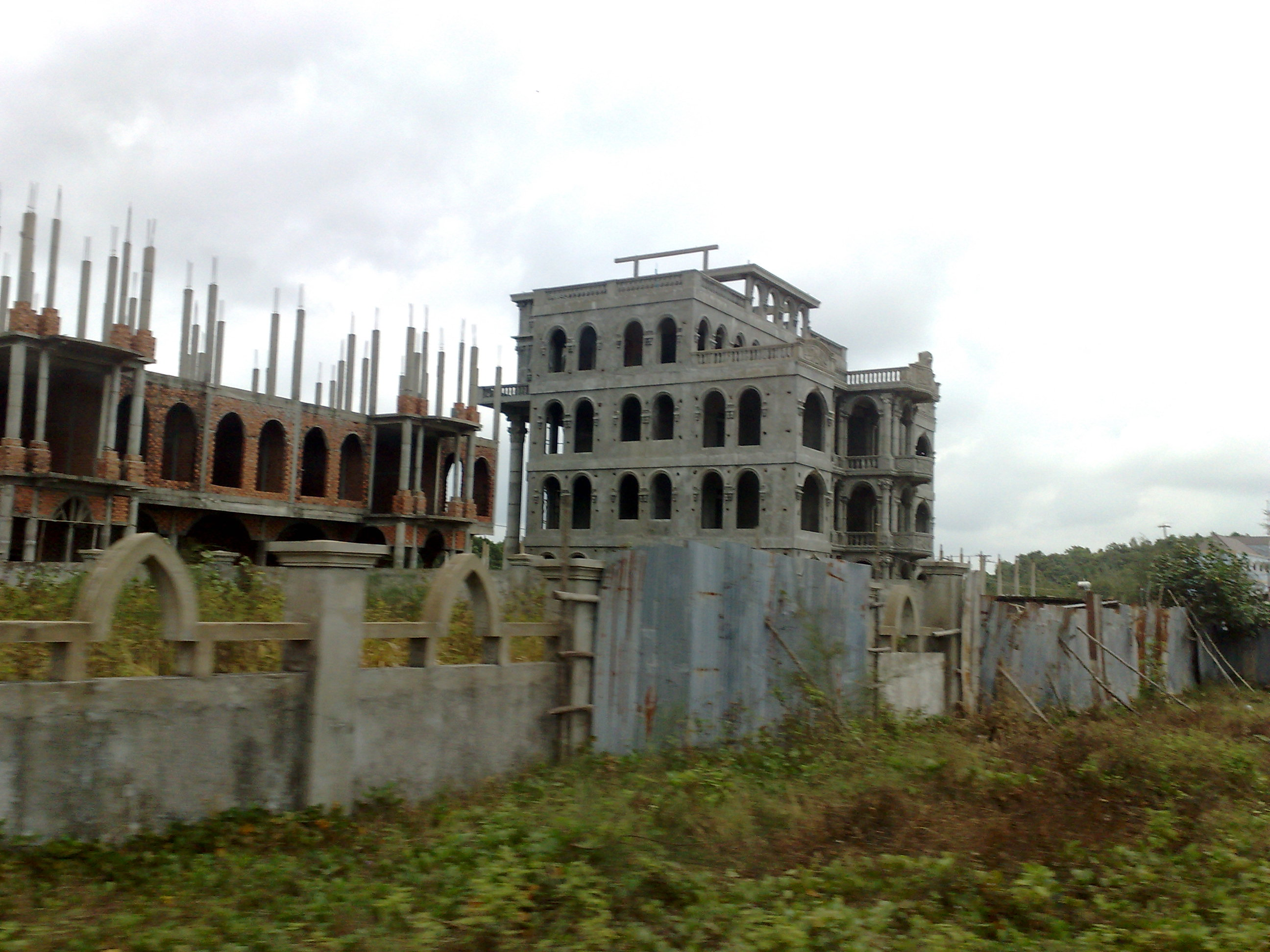 Haunted house in Sihanoukville, Cambodia.